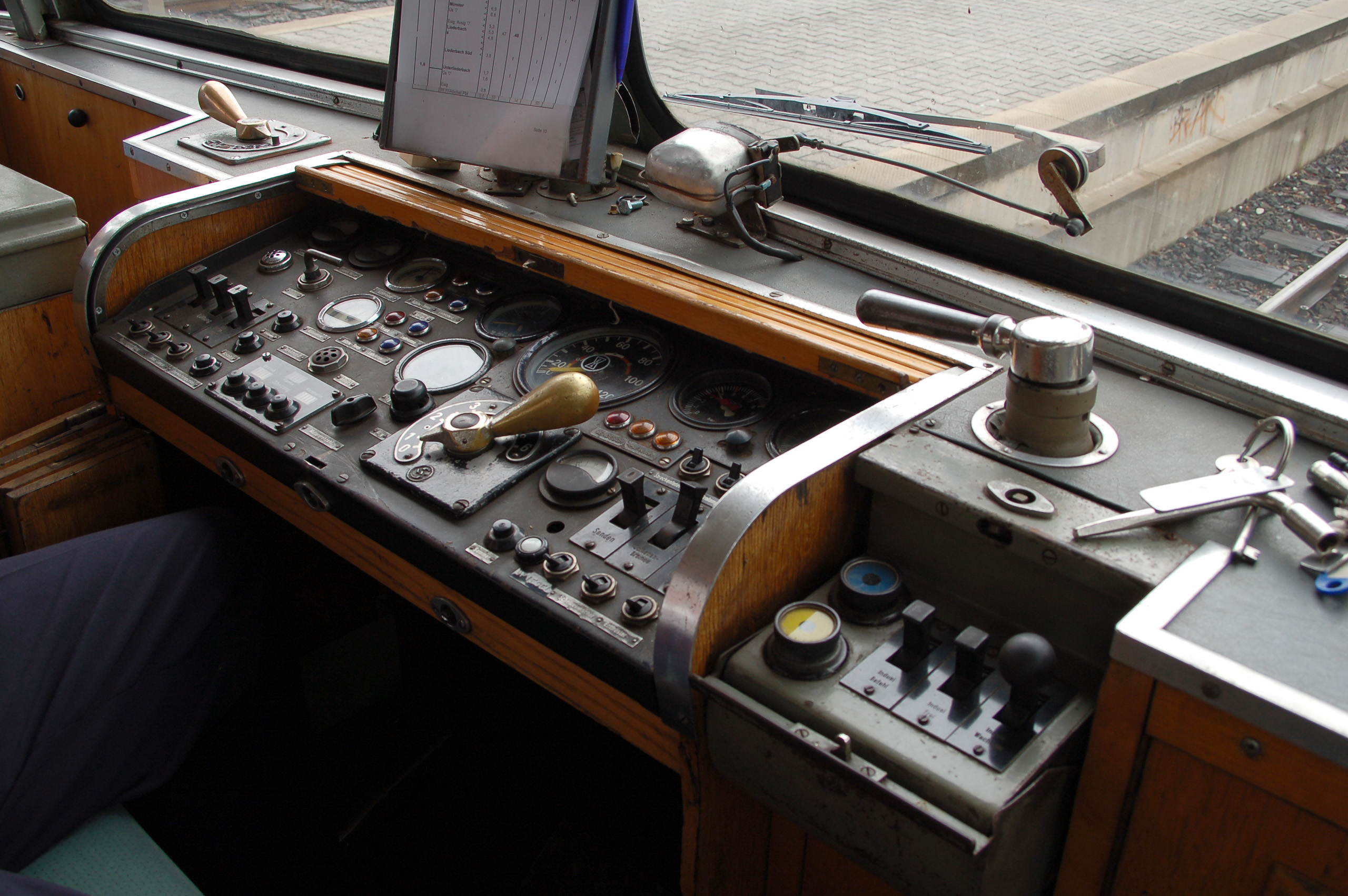 Uerdinger Schienenbus, BR 798, control console. To the right of the main console the Indusi console can be seen, which has been retrofitted.